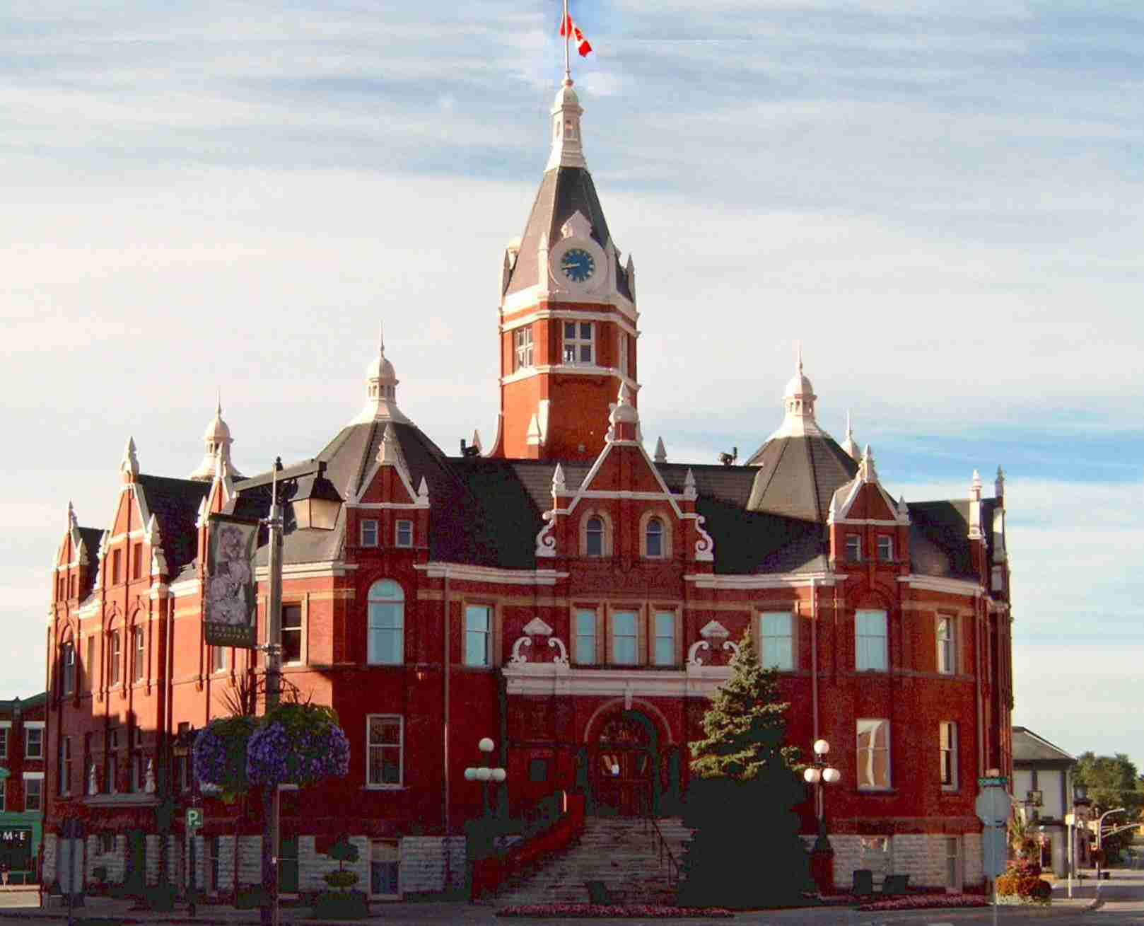 Stratford Ontario's City Hall